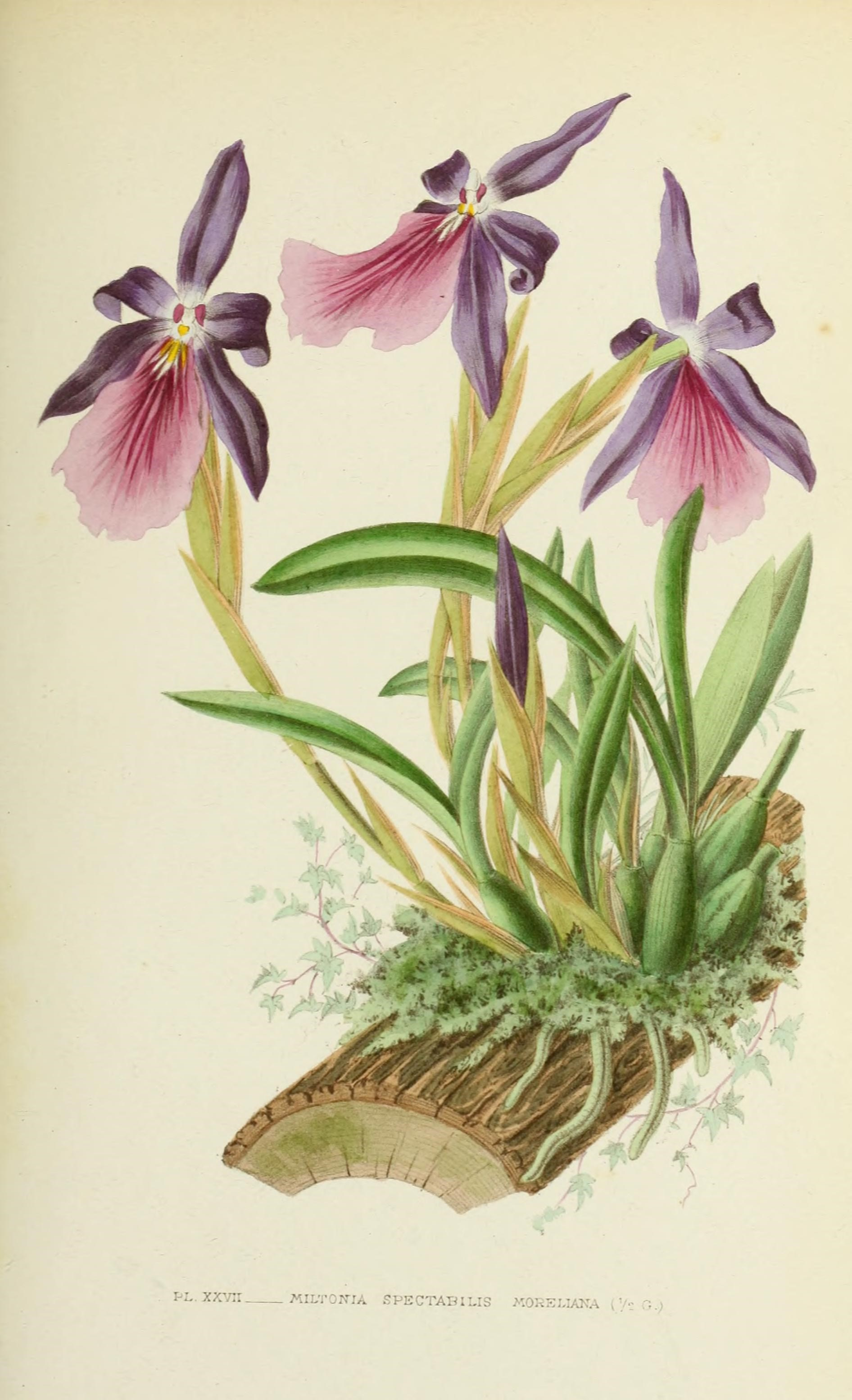 Les orchidées,. Paris,J. Rothschild,1880.. This botanical illustration of orchids is from 1880 publication by E. De Puydt, Les Orchidees, Editor - J. Rothschild; The scientific botanical name of each orchid is at the bottom of the plate. Archived at (1) Biodiversity Heritage Library; (2) Botanical Museum of Harvard University. For text and discussion The photograph published in 1880 qualifies for license under PD-Art